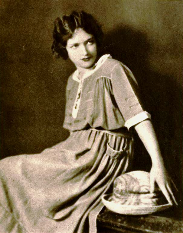 American actress Peggy Wood on page 27 of the December 1922 Shadowland.